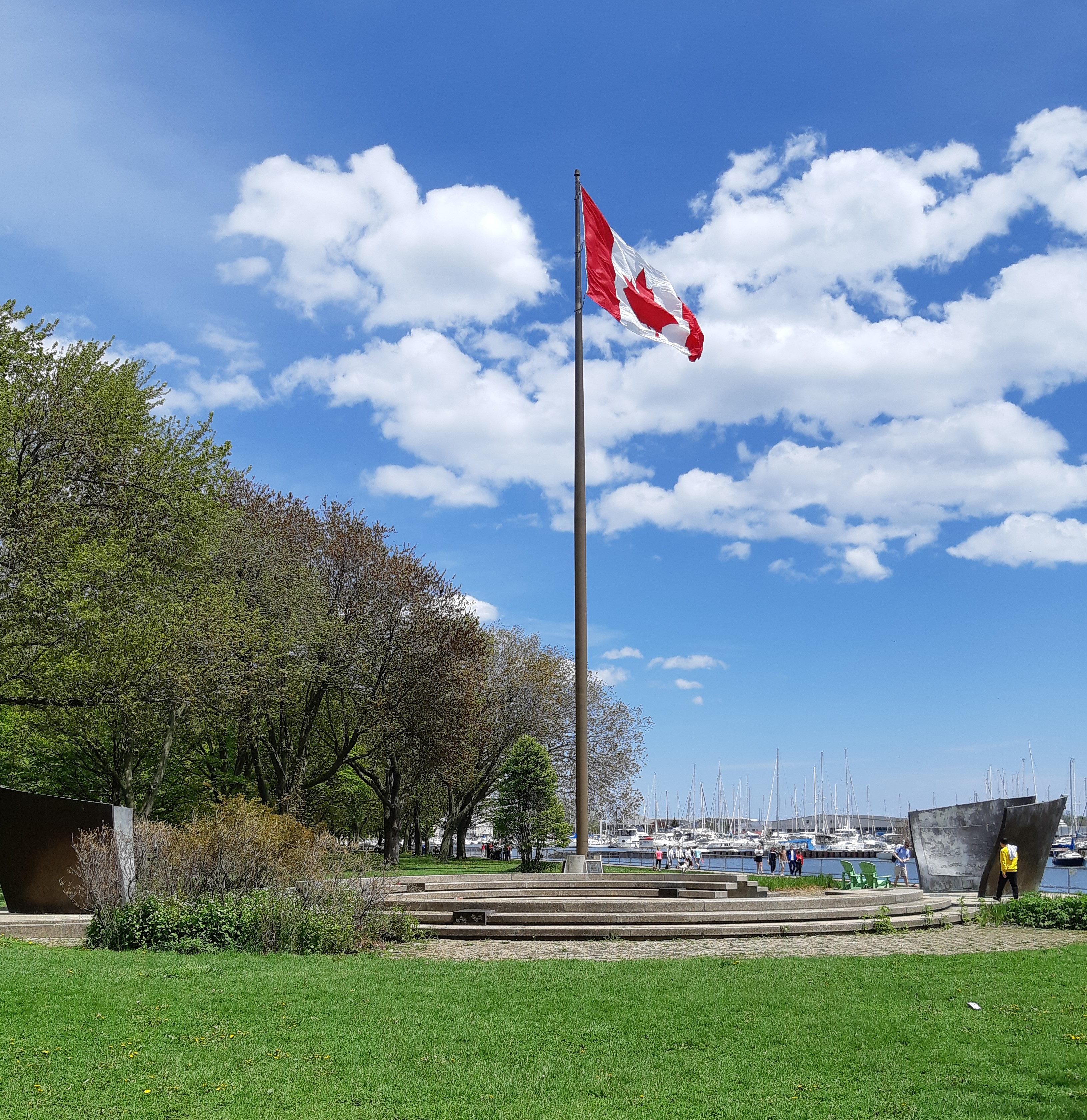 1995 memorial to end of World War II